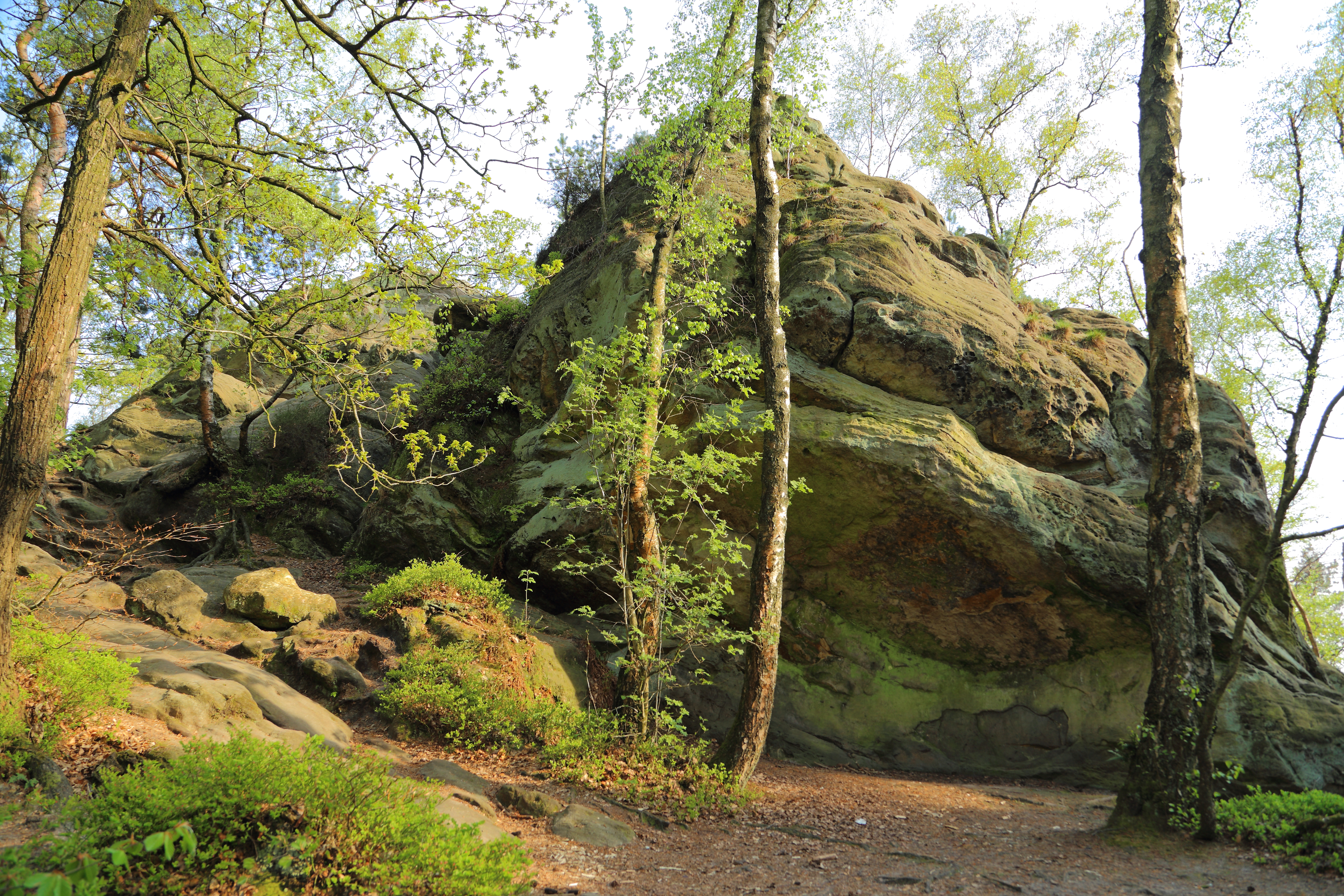 At the nature reserve „Dorenthe Cliffs“ (Naturschutzgebiet Dörenther Klippen) near Ibbenbüren-Dörenthe, Kreis Steinfurt, North Rhine-Westphalia, Germany.